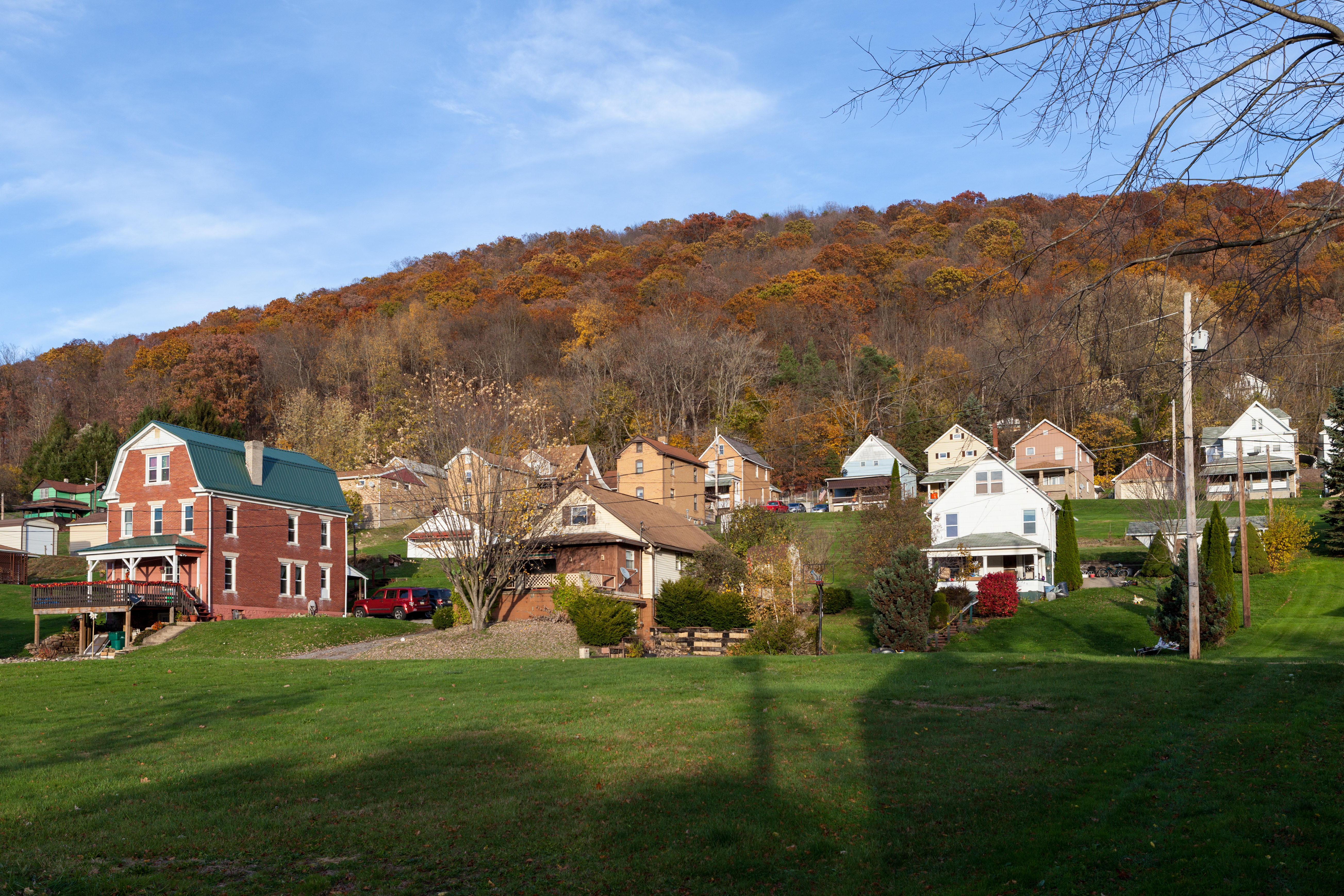 Looking northeast at the west facing hillside in Templeton, Pennsylvania, located in Pine Township, Armstrong County, Pennsylvania.